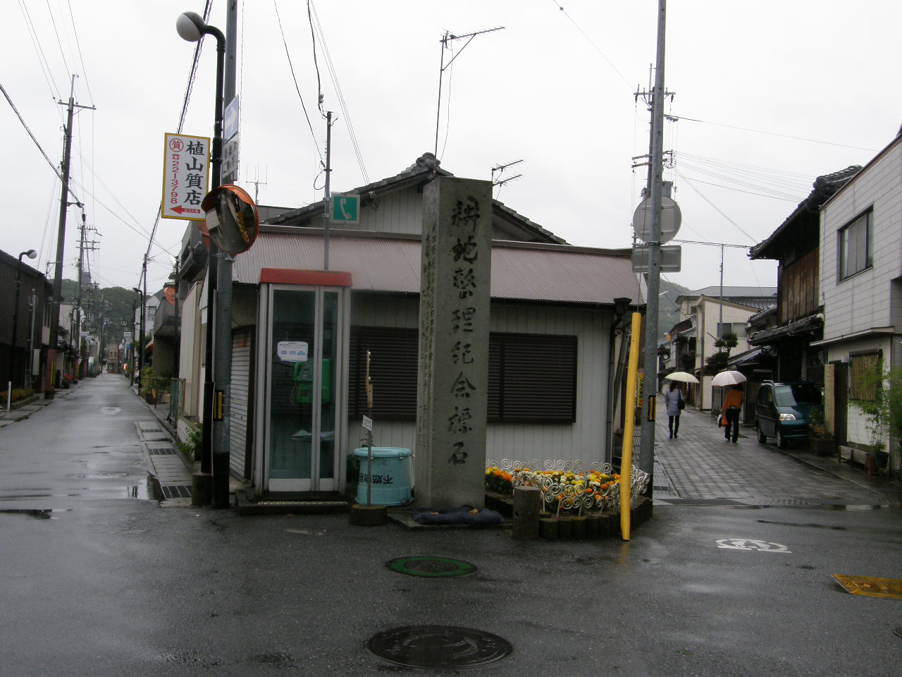 横尾忠則が描いた西脇市の三叉路